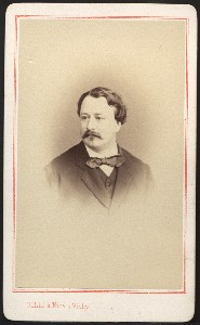 Desbrochers